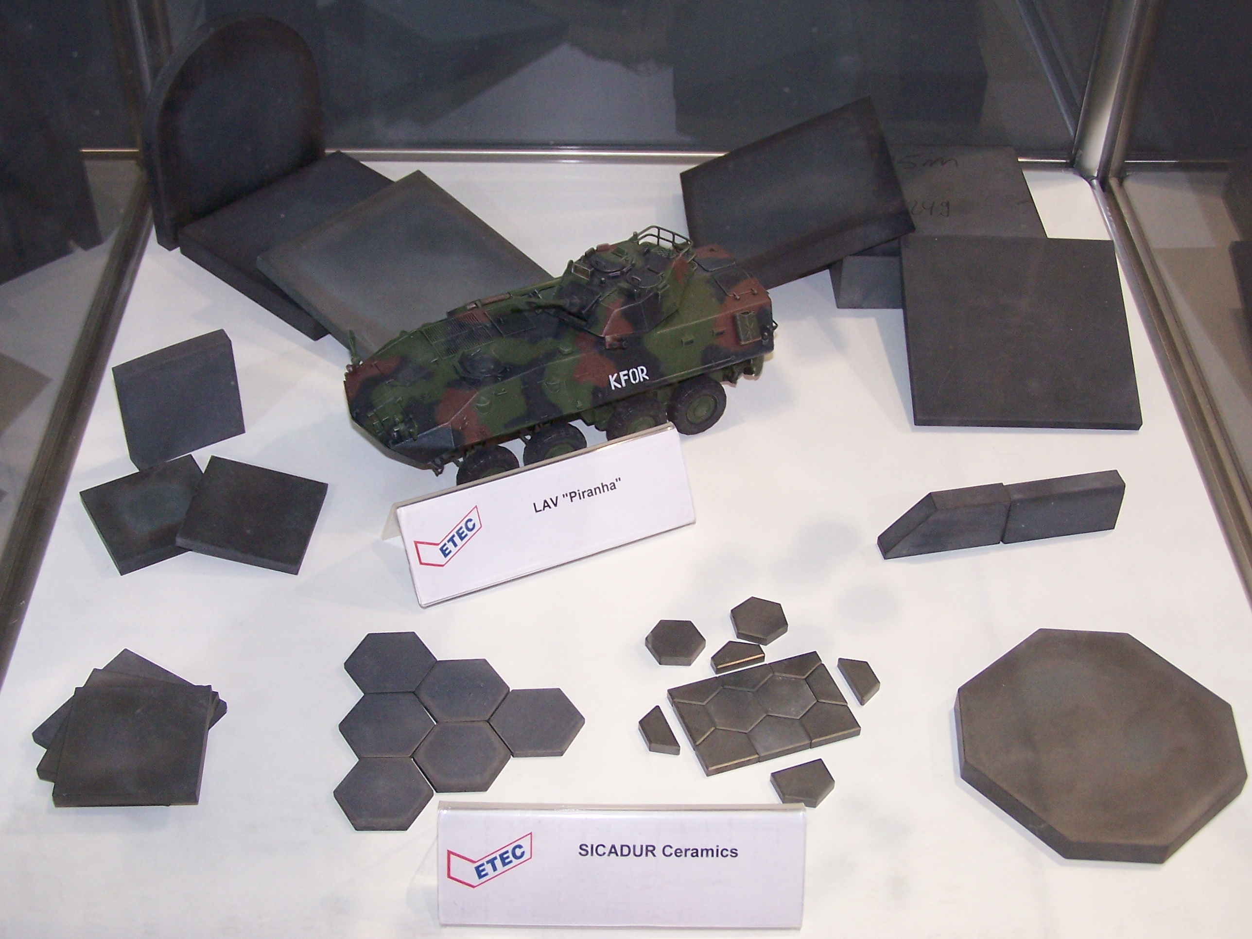 SICADUR ceramic armour tiles for vehicles